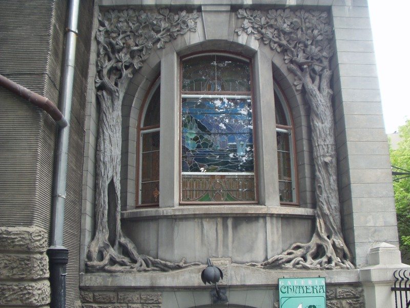 Leopold Kindermann villa, Lodz 31 Wólczańska Street